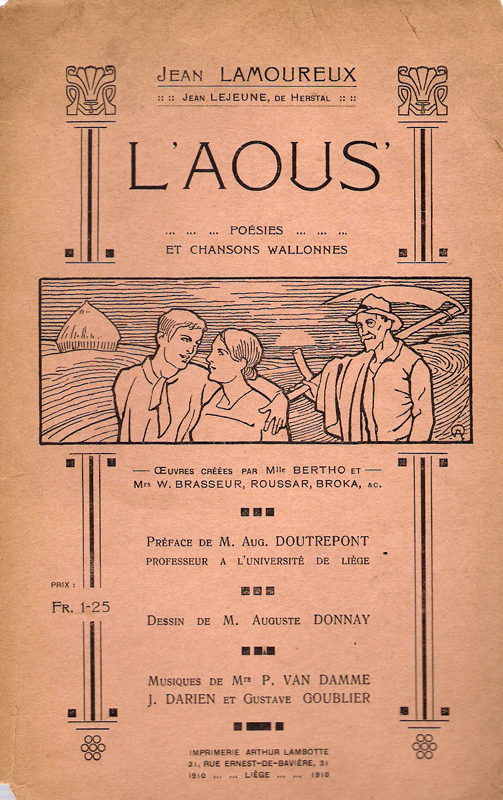 Book of Jean Lejeune, whose nom de plume was Jean Lamoureux Walon: Coviete di L' awousse da Jean Lamoureux (no d' pene da Jean Lejeune di Hesta)